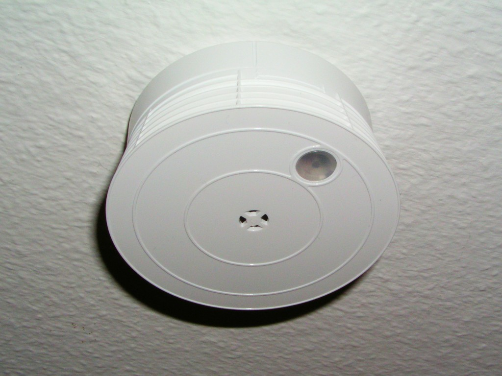 photoelectric smoke detector, mounted on the ceiling moderner Heimrauchmelder (optisch), an der Decke montiert photo made by: user:TDLacoste on Feb 3, 2005 first upload: Feb 5, 2005 - Wikipedia